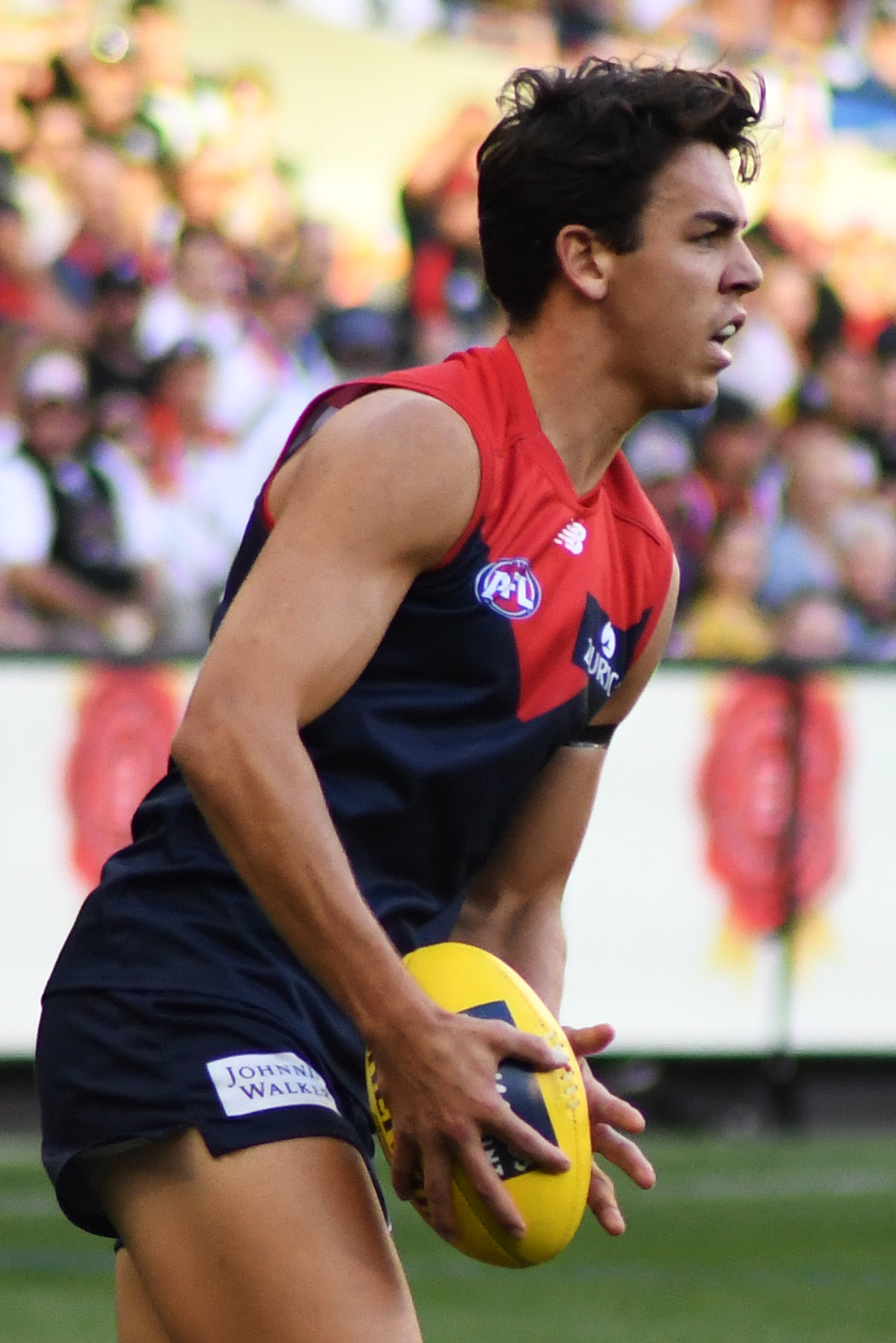 Marty Hore of Melbourne during the 2019 AFL round 5 match between Melbourne and St Kilda at the Melbourne Cricket Ground on Saturday, 20 April 2019 in Melbourne, Victoria.